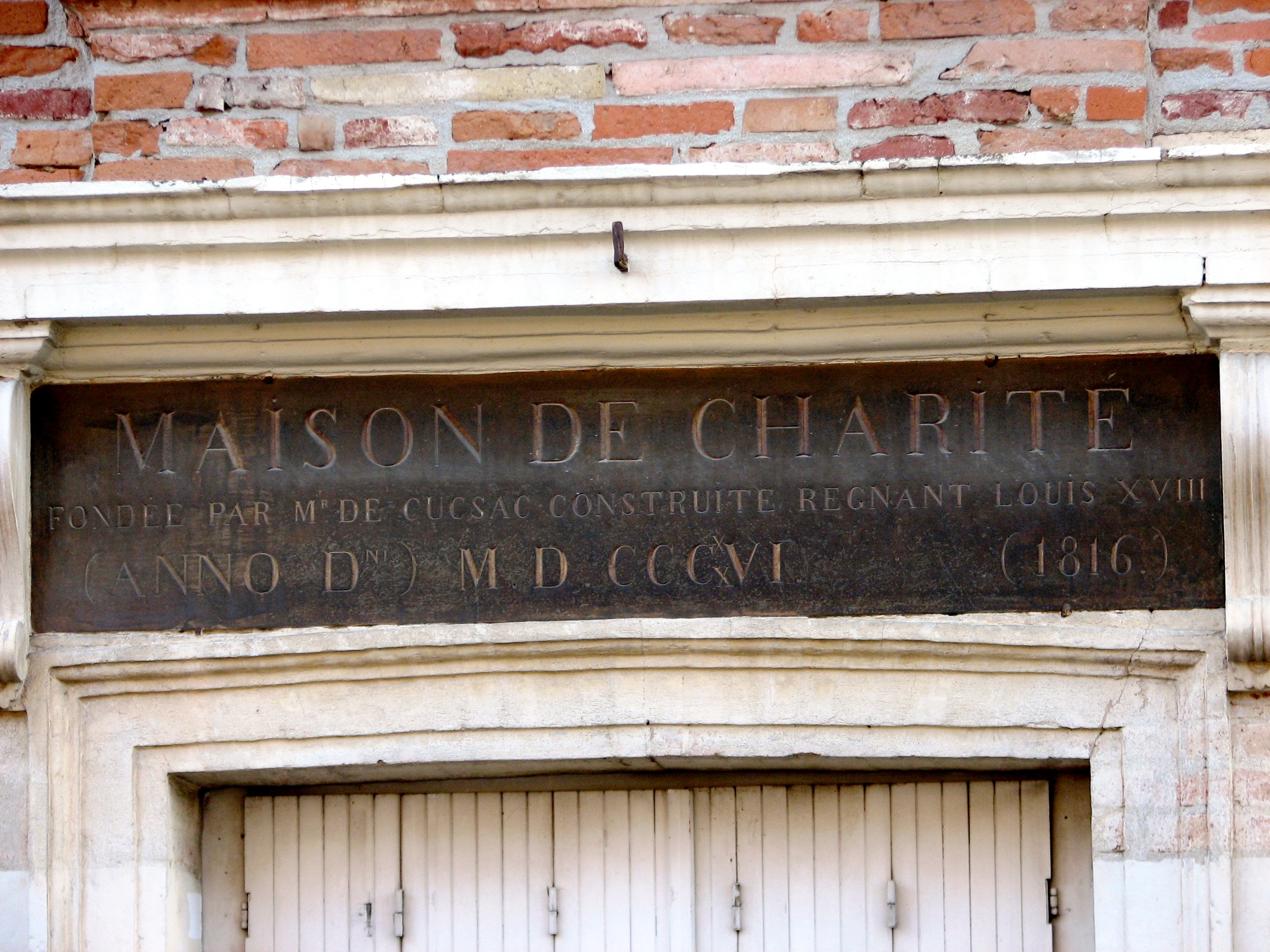 fundation by Mr de Cucsac of the Bruguieres's hospital in 1816